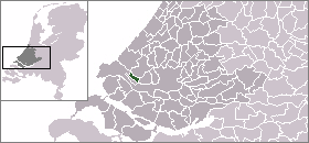 Location of Maassluis